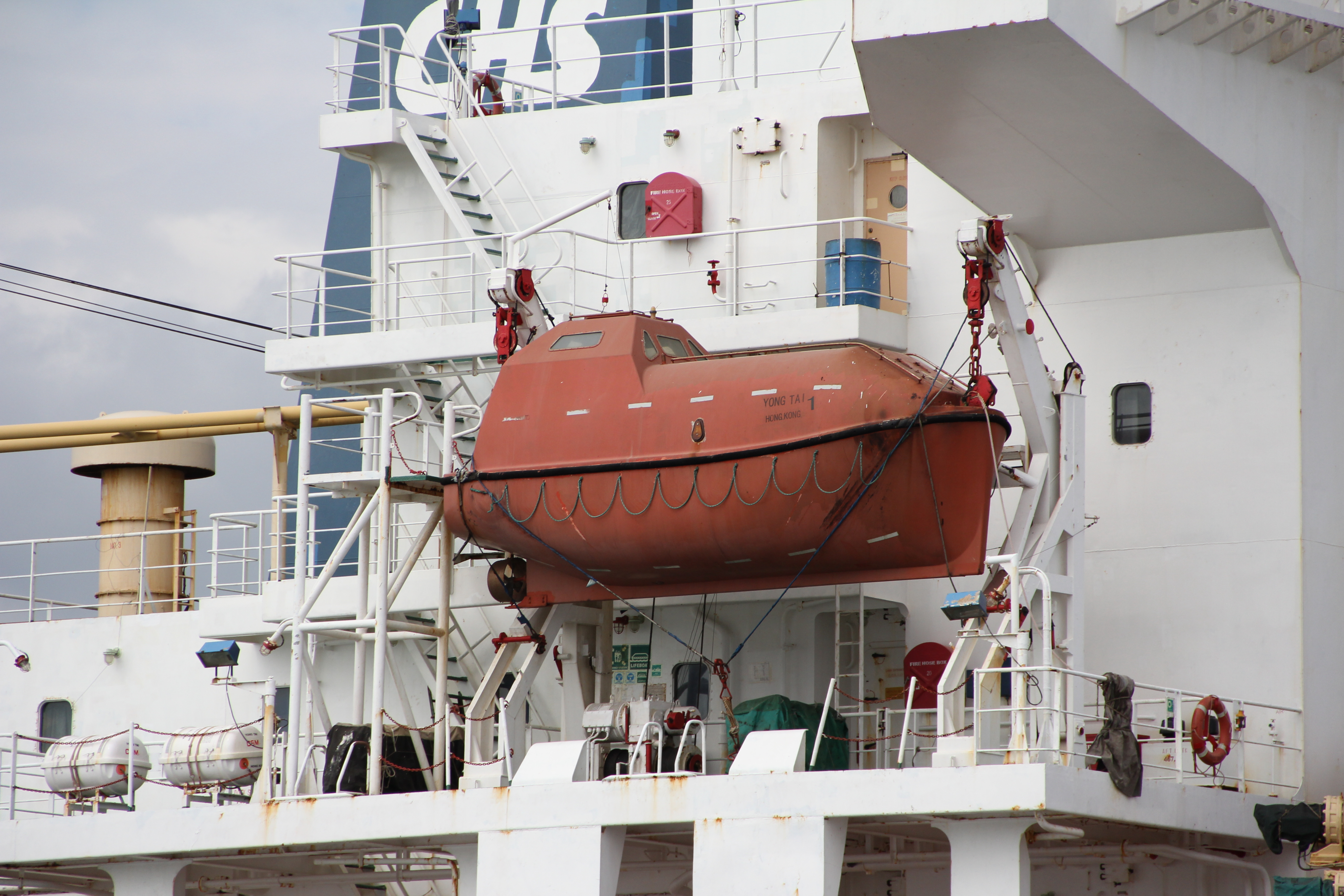 Lifeboat_1